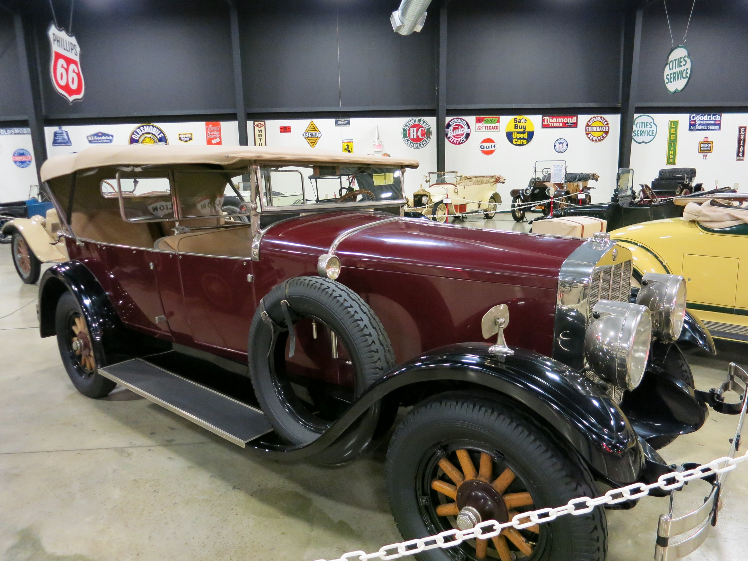 1928 Franklin Tupelo Automobile Museum Tupelo, Mississippi